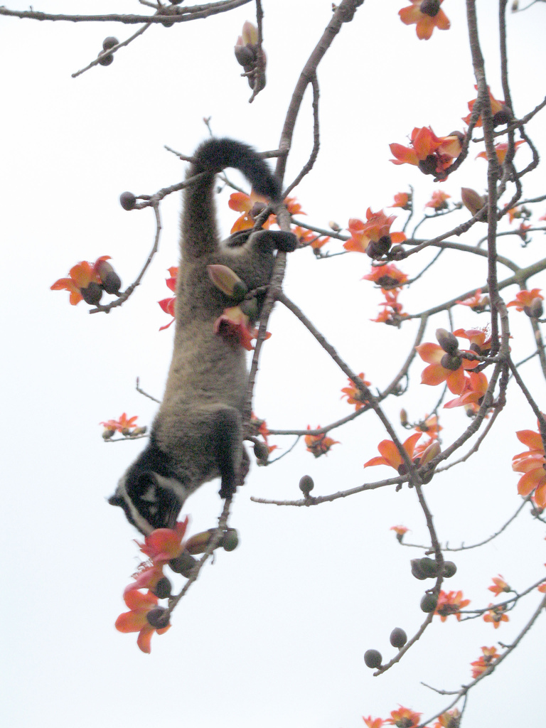 Asian Palm Civet Paradoxurus hermaphroditus feeding on a cotton tree Bombax malabaricum in Hong Kong